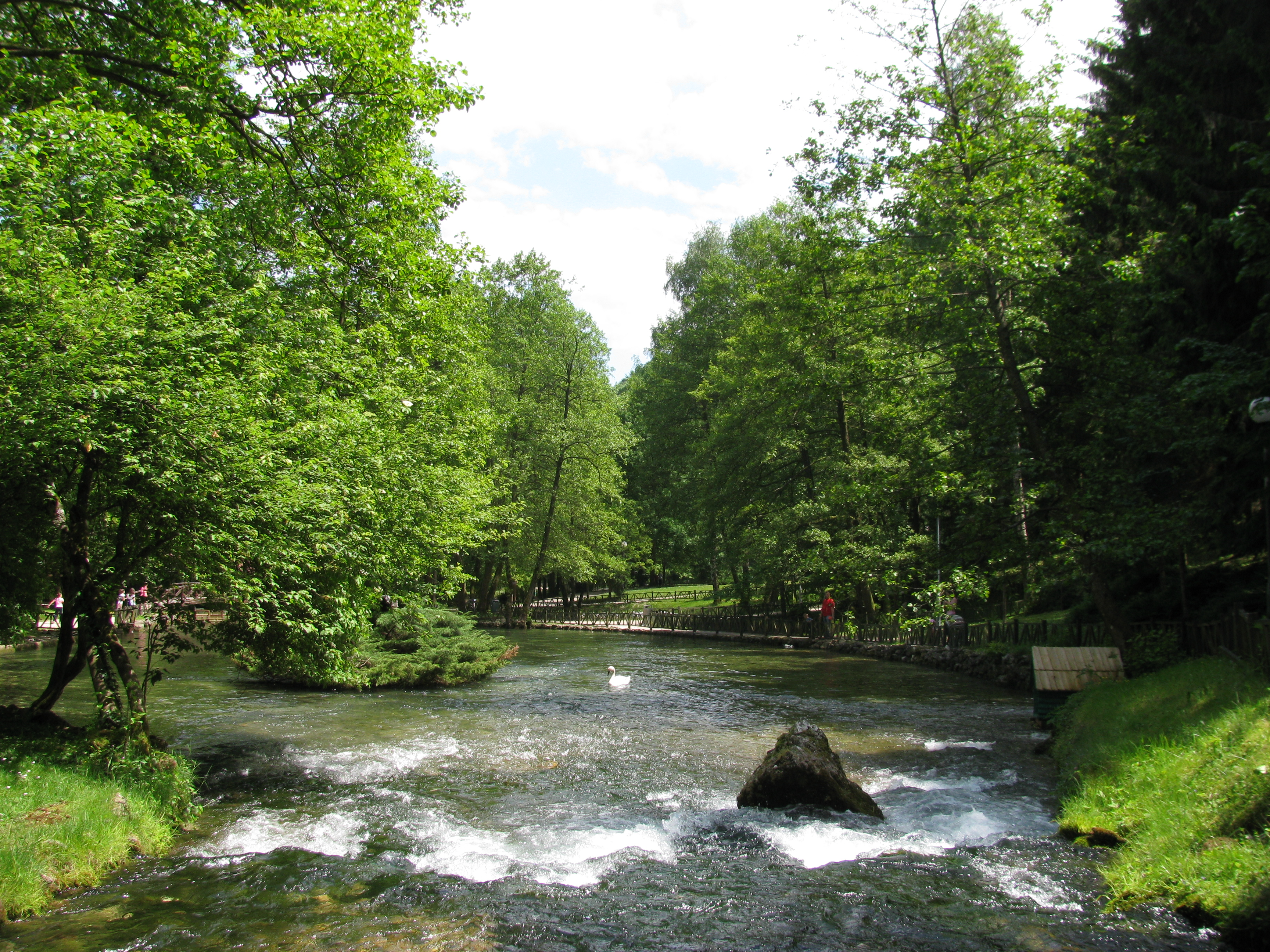 Sarajevo park in the municipality of Ilidža on the river Bosna.